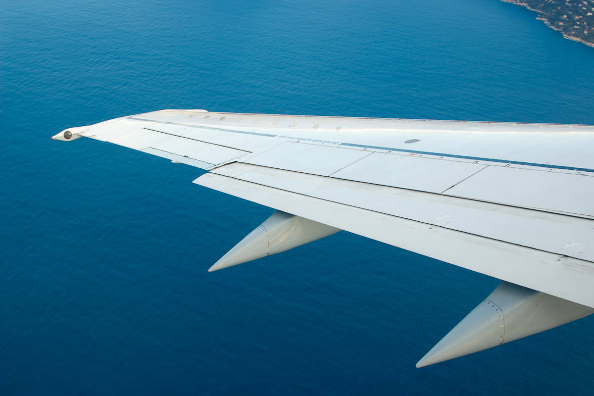 Boeing 737's port wing with flaps partially retracted after take-off